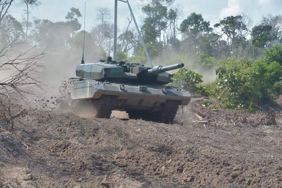 Leopard 2 Tank of the Indonesian Army